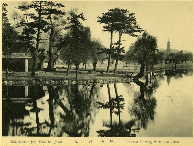 old photo from China 1900-1903, see the file's name for detail.